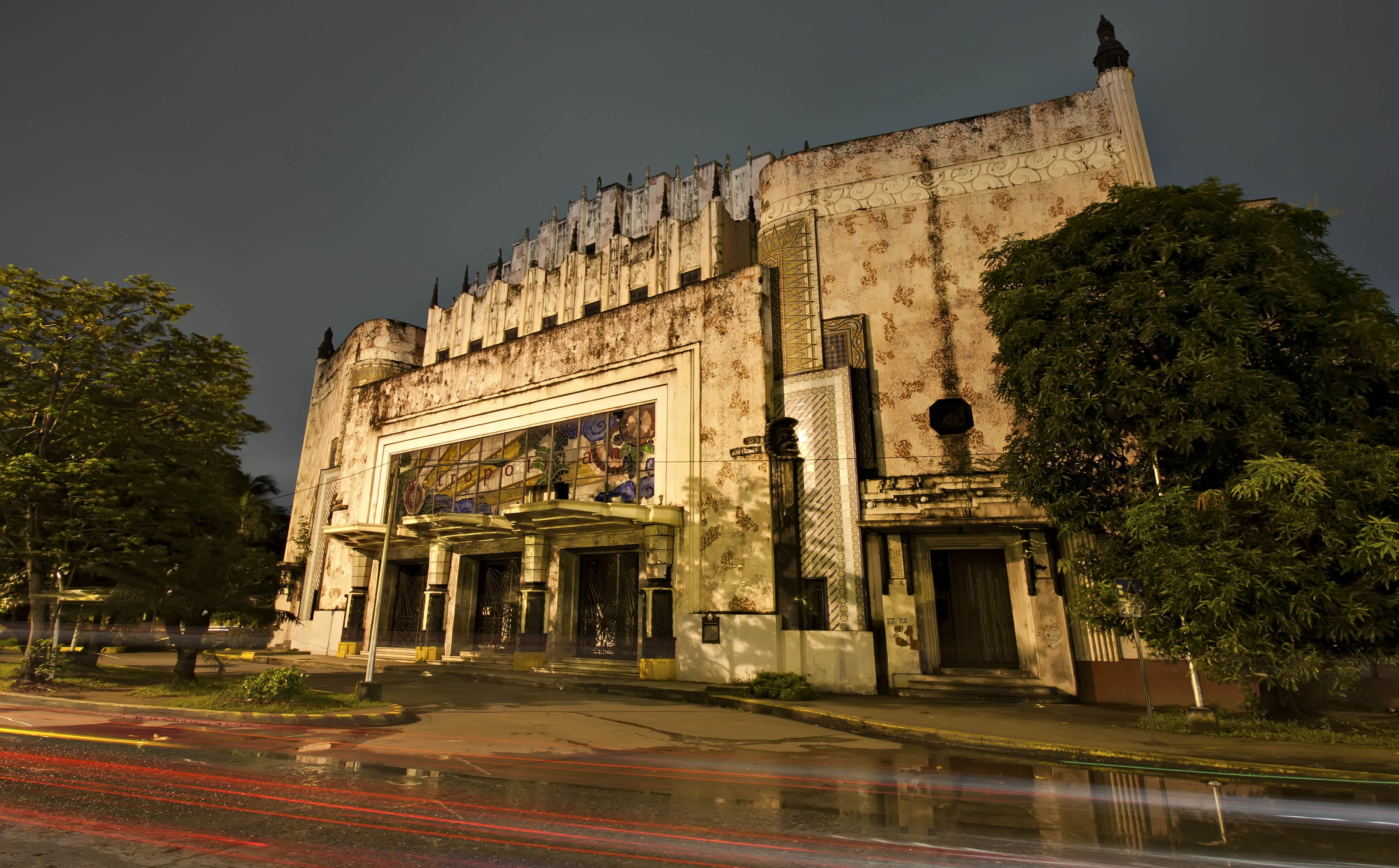 Manila Metropolitan Theater or commonly called the Met is an abandoned art deco building in the heart of Manila.